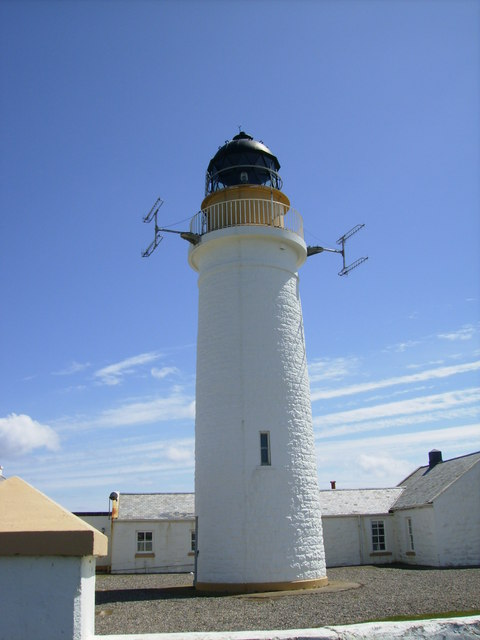 Langness Lighthouse